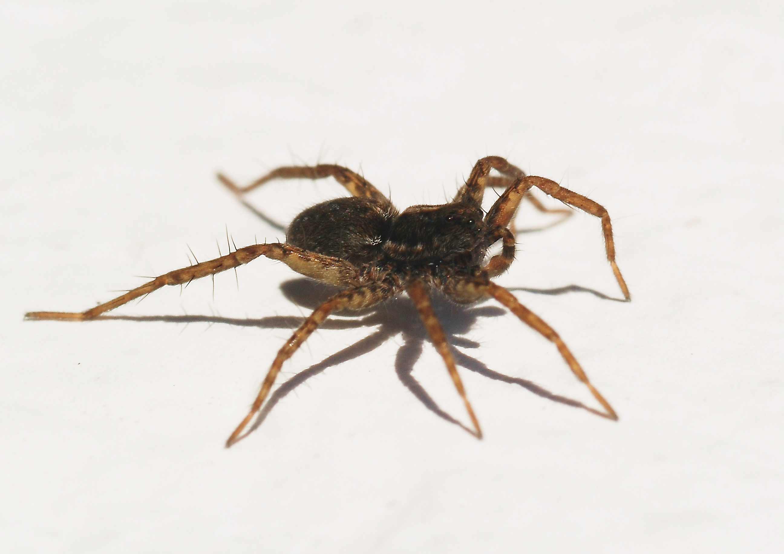 A wolf spider (sub-adult Pardosa sp. male)